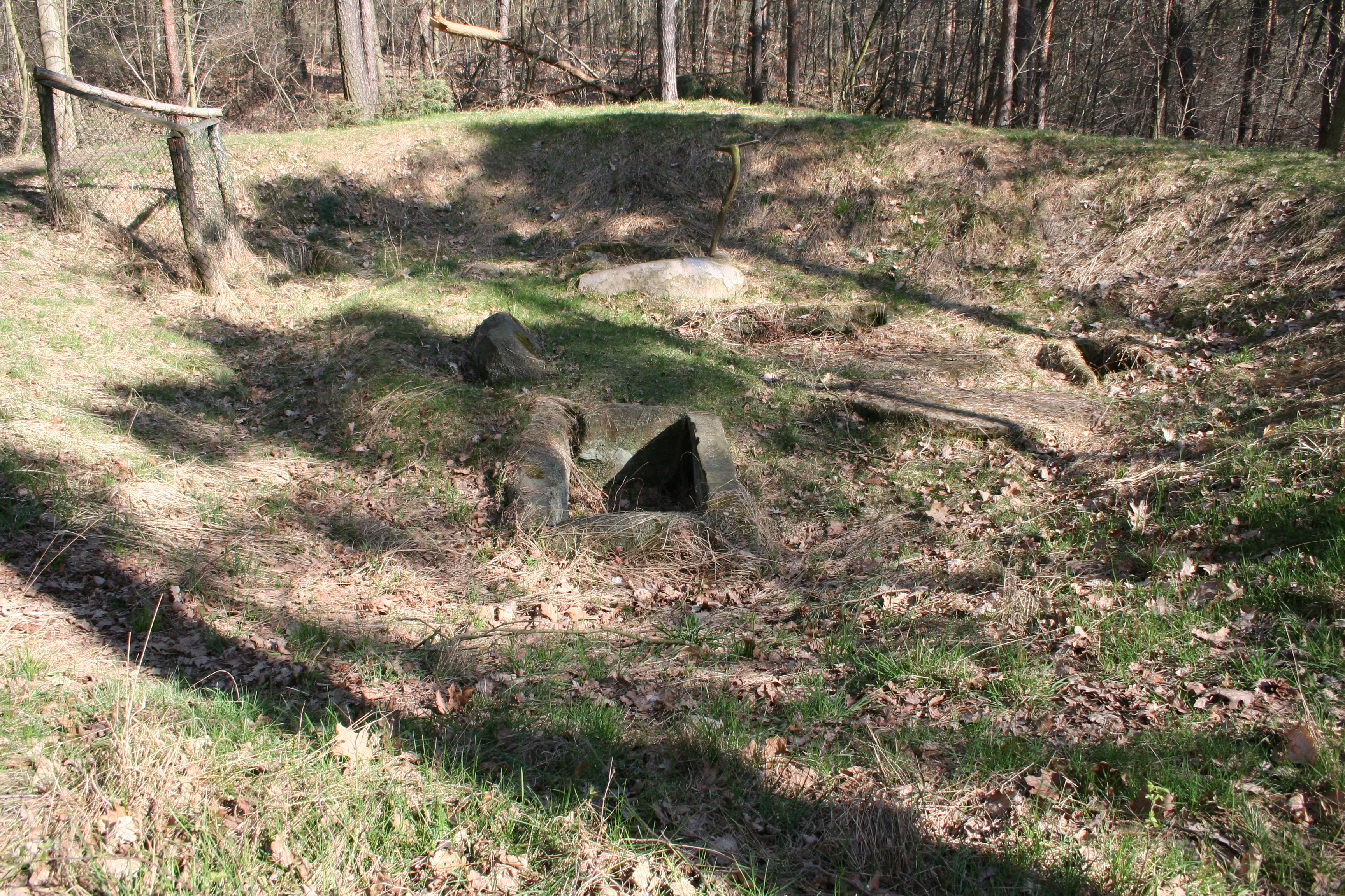 Burial mound 28 with reconstructed cist graves at Dölauer Heide, Halle (Saale)